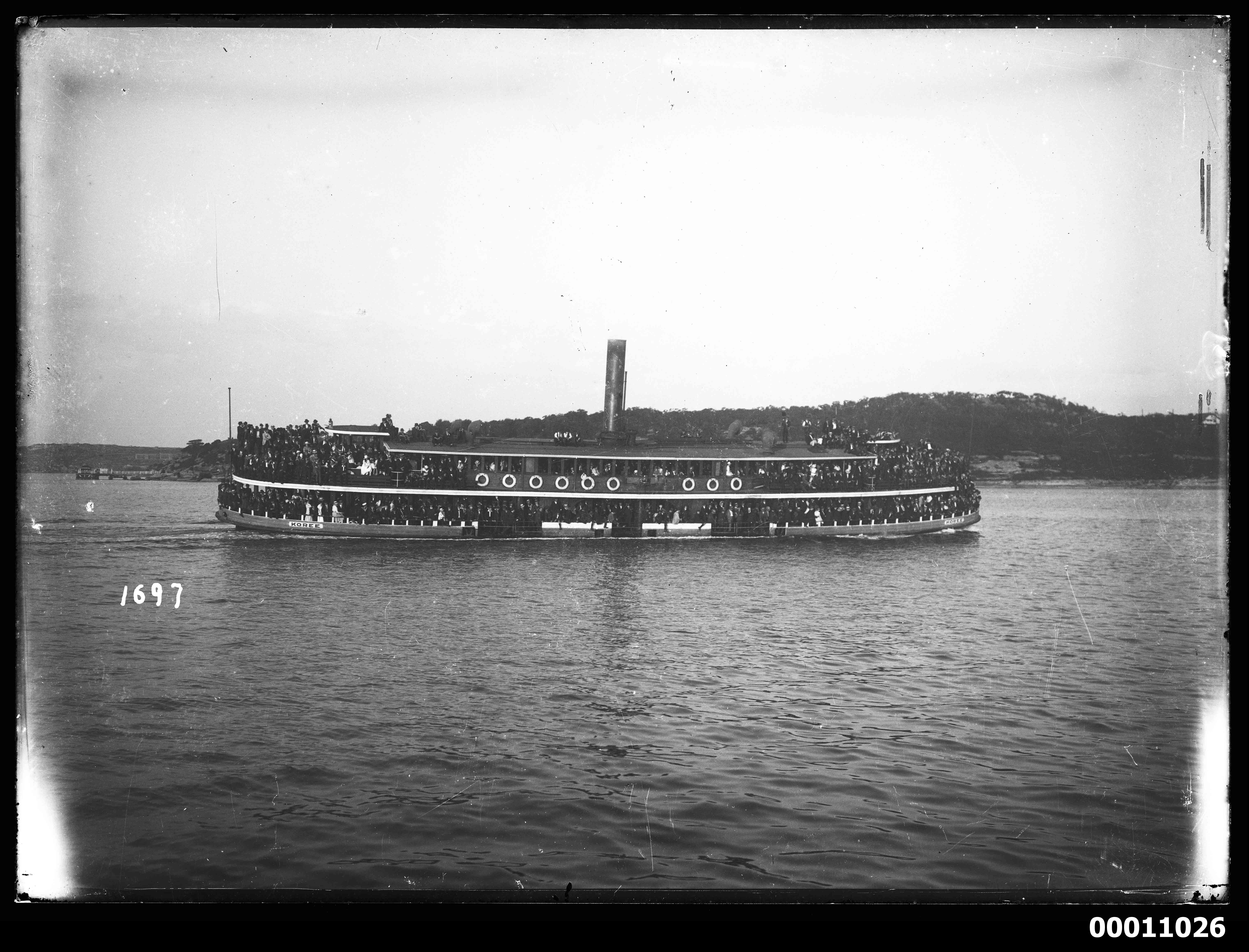 This photo is part of the Australian National Maritime Museum’s William J Hall collection. The Hall collection combines photographs from both William J Hall and his father William F Hall. The images provide an important pictorial record of recreational boating in Sydney Harbour, from the 1890s to the 1930s – from large racing and cruising yachts, to the many and varied skiffs jostling on the harbour, to the new phenomenon of motor boating in the early twentieth century. The collection also includes studio portraits and images of the many spectators and crowds who followed the sailing races. The Australian National Maritime Museum undertakes research and accepts public comments that enhance the information we hold about images in our collection. If you can identify a person, vessel or landmark, write the details in the Comments box below. Thank you for helping caption this important historical image. Object number 00011026